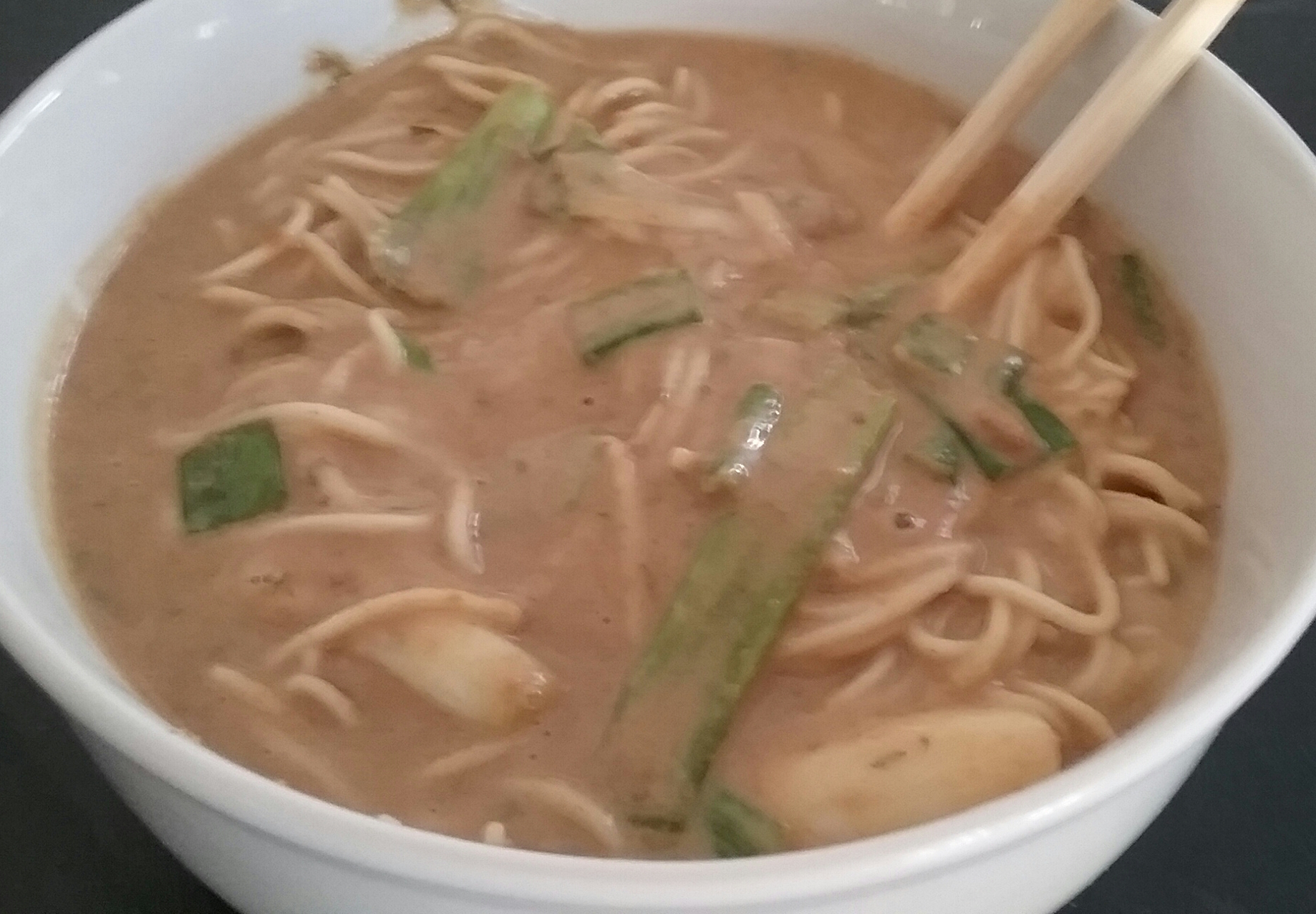 A bowl of Noodles With Sesame Sauce (麻醬麵). The recipe is from the cookbook “Chinese Rice & Noodles, with Appeitizers, Soups, & Sweets” by Su-Huei Huang & Mu-Tsun Lee. Published by Wei-Chuan Publishing (Sept. 2005, Taiwan).